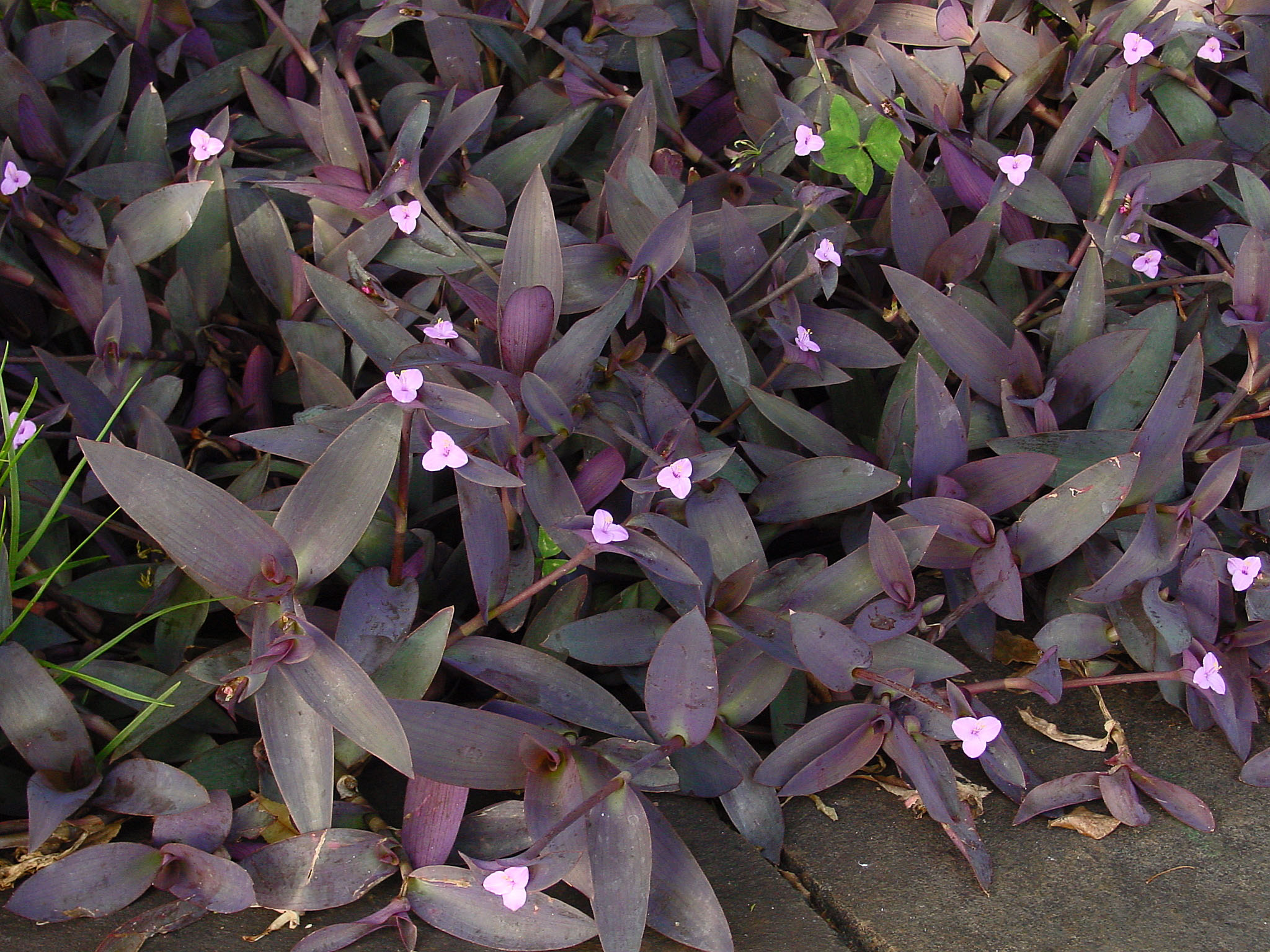 Wandering Jew. Photo taken at Madeira.